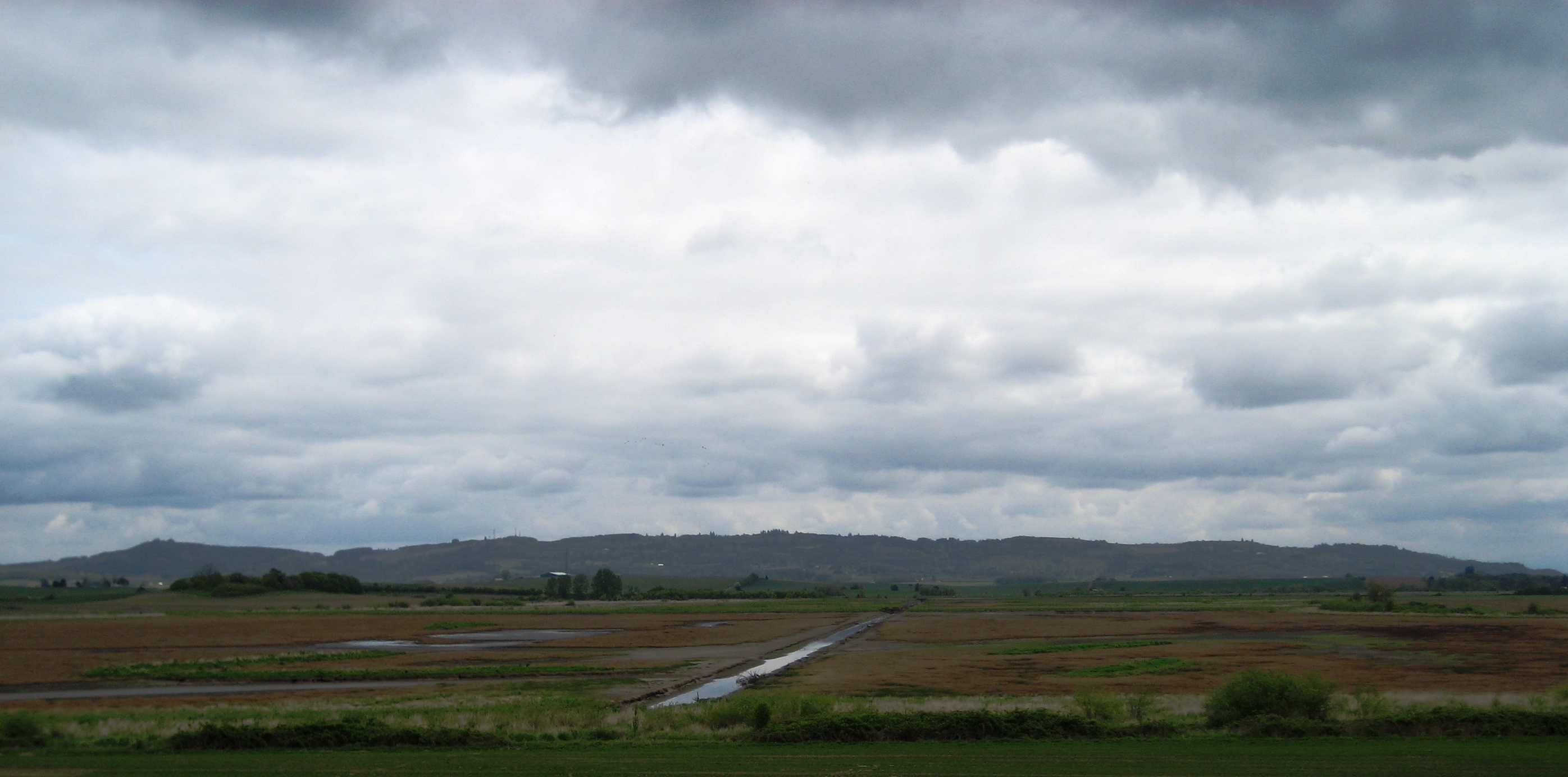 Eola Hills west of Salem, Oregon